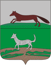 Verkhneuralsk (Chelyabinsk oblast), coat of arms (1782)